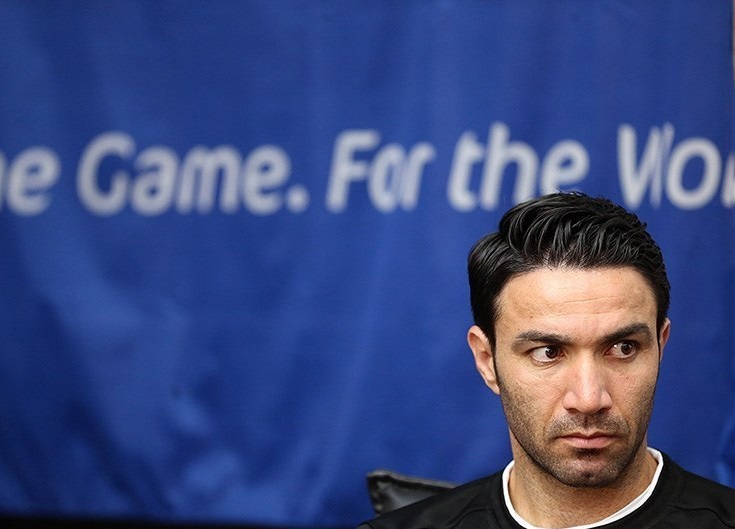 Iran national football team captain, Javad Nekounam during press conference of Kuwait match, 2015 AFC Asian Cup qualification